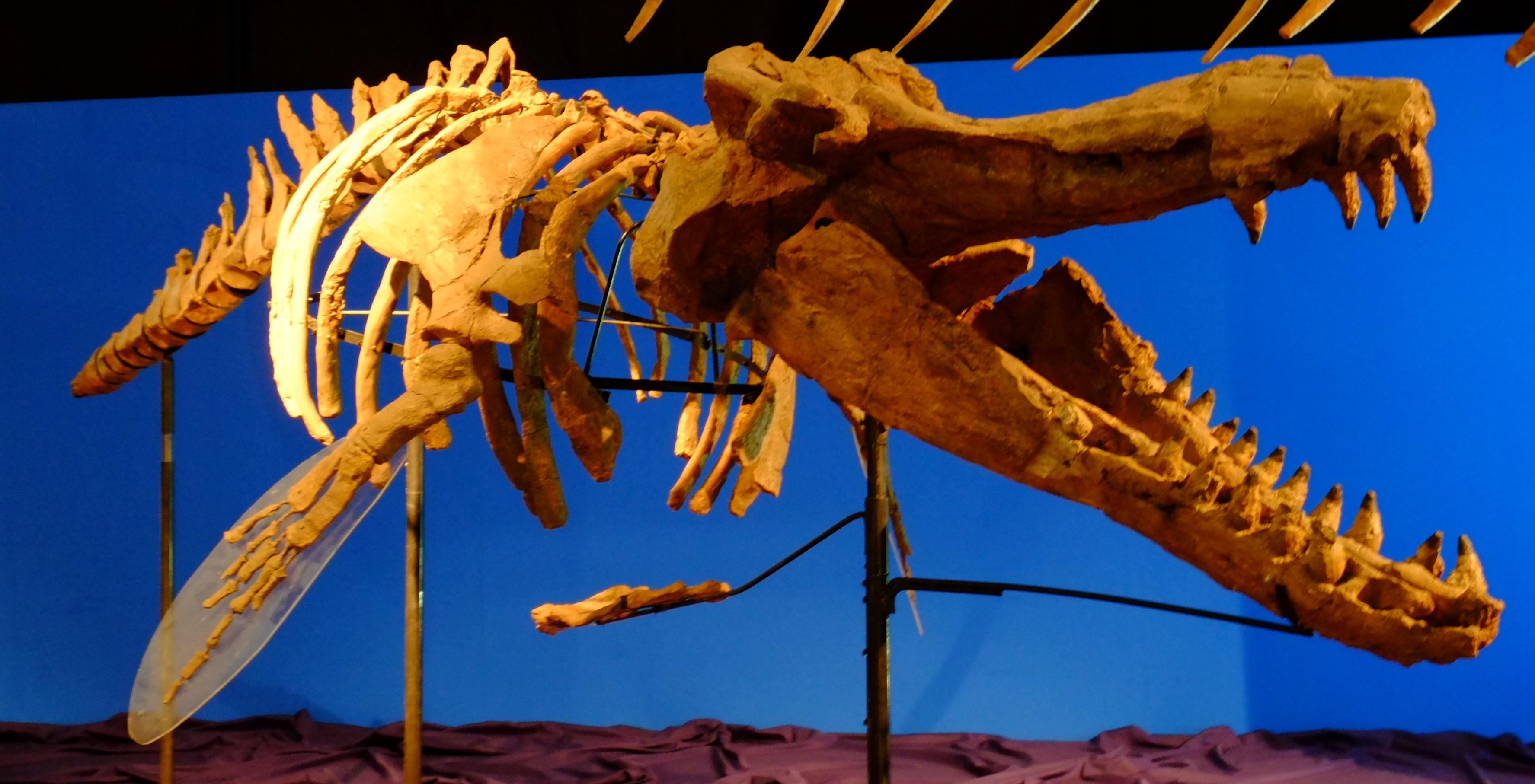 古代の日本の関東の海では生態系の頂点だったとか。 In the ancient seas, Brygmophyseter was a top predator.